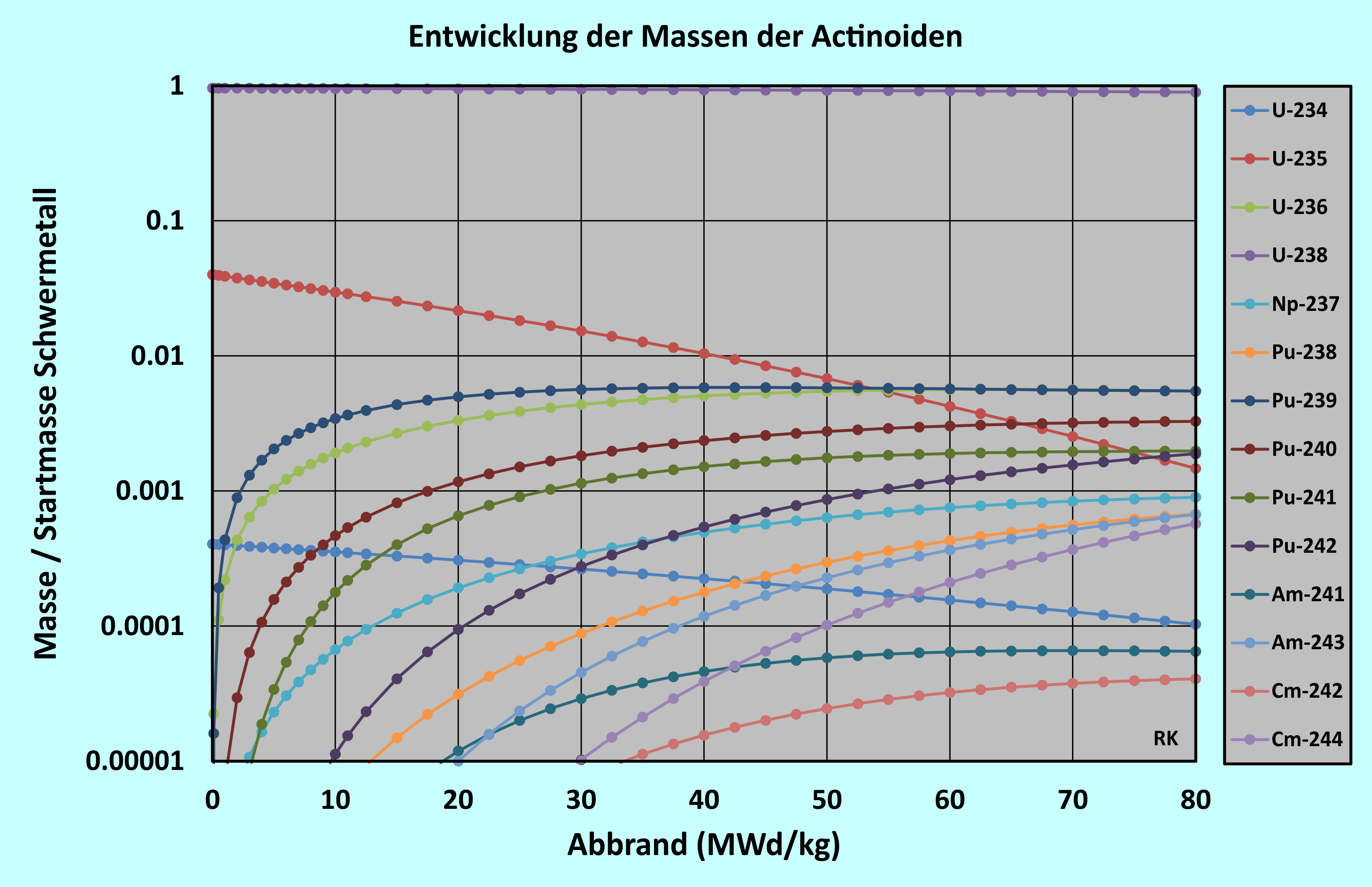 Evolution of masses the actinide nuclides with respect to mean burnup for a pressurized water reactor (the ordinate axis is on a log scale).